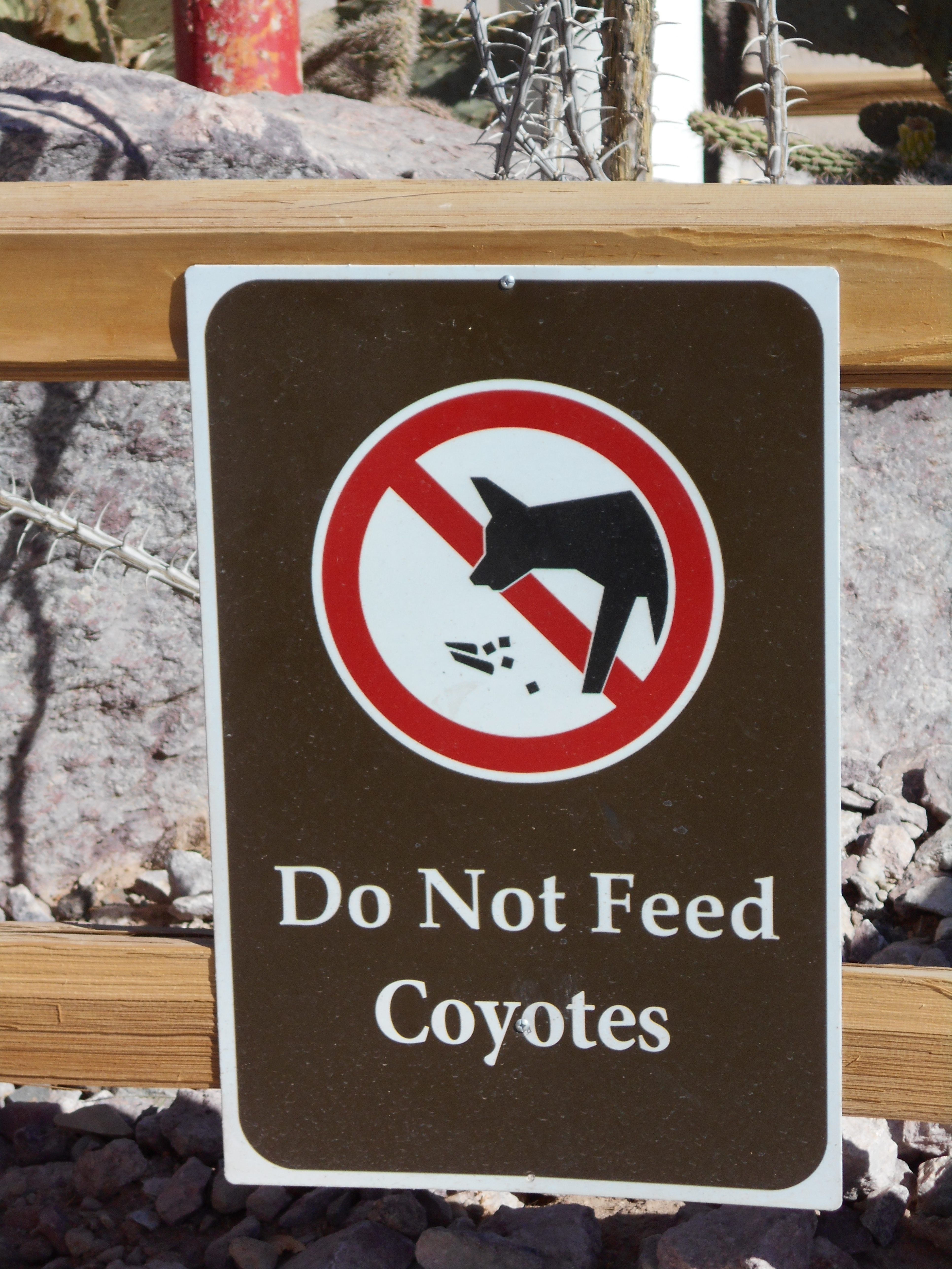 Warning not tzo feed coyotes on a sign in Why, Arizona